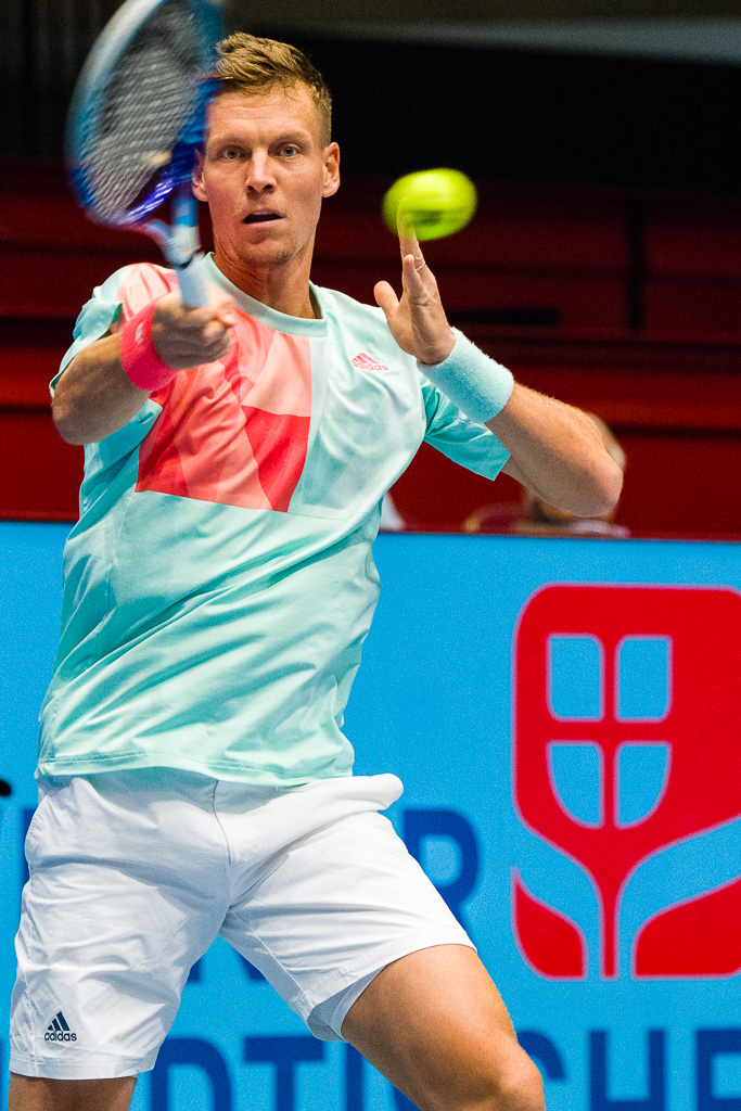 Tomas Berdych (CZE) vs. Nikoloz Basilashvili (GEO) 1st round at Erste Bank Open ATP World Tour 500 in Vienna 24.10.2016